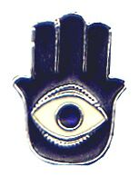 Khamsa (Fatima's hand) used as a pendant